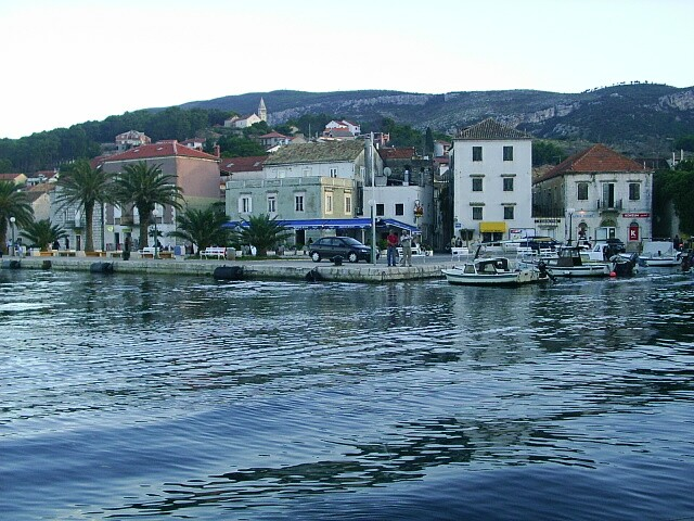 Town of Jelsa at the Hvar island, Croatia